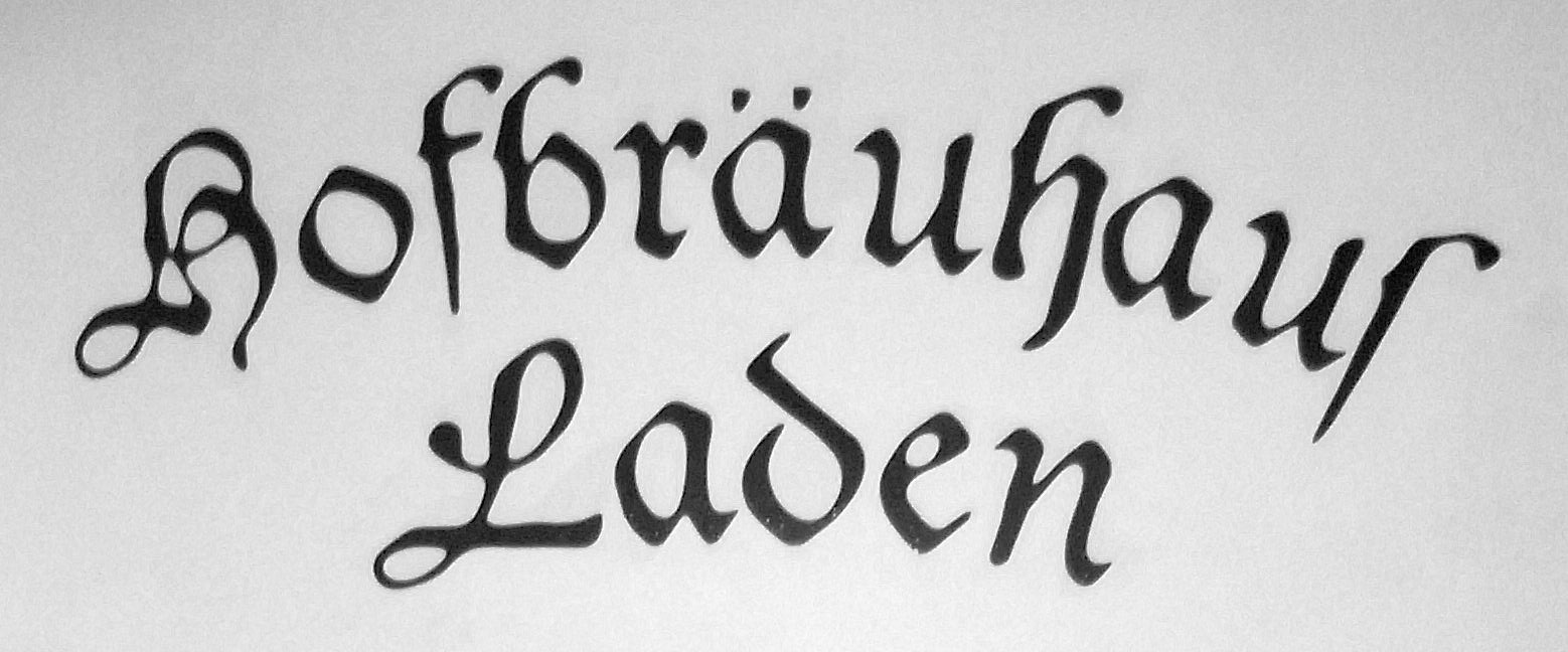 Shows the former painting above of the entrance door of the souvenir shop at the site of the world-famous Hofbräuhaus in Munich, Germany. This door is directly suited right of the main entrance of the building. The inscription translates “Hofbräuhaus shop”. It shows an incorrect “long s” as the last letter of the word “Hofbräuhaus”, as the German typesetting rules require a “round s” at the end of words (or of the parts of compound nouns) even when using fonts which contain a long s. Also, the German orthographic rules require a hyphen between the two words (if the whole name is not written as a single compound noun, which is the preferred style anyway). — In June 2013, the painting was found renewed, showing now a correct (round) s (but still missing the hyphen).